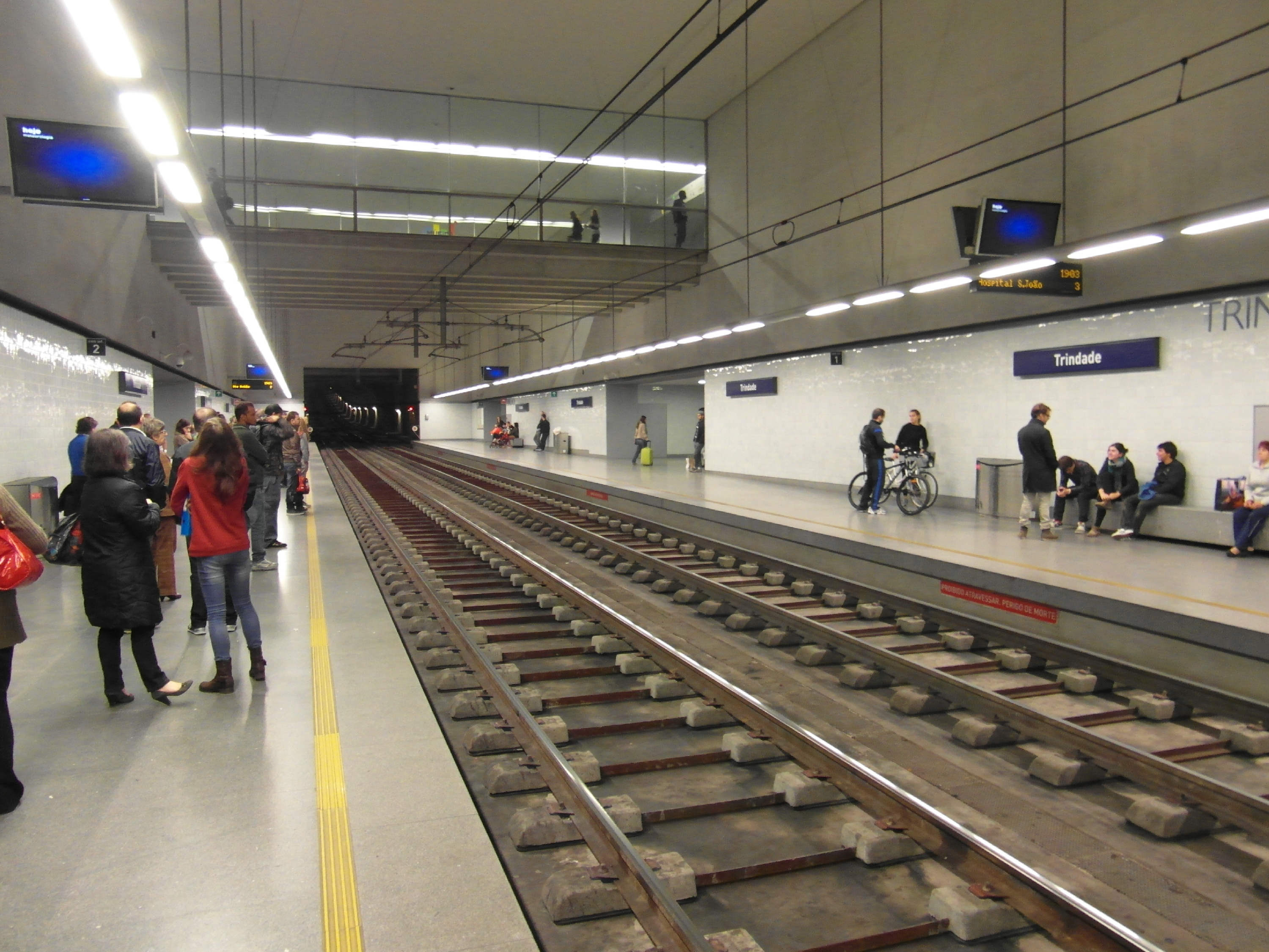 Stadtbahn Porto - Light rail Oporto